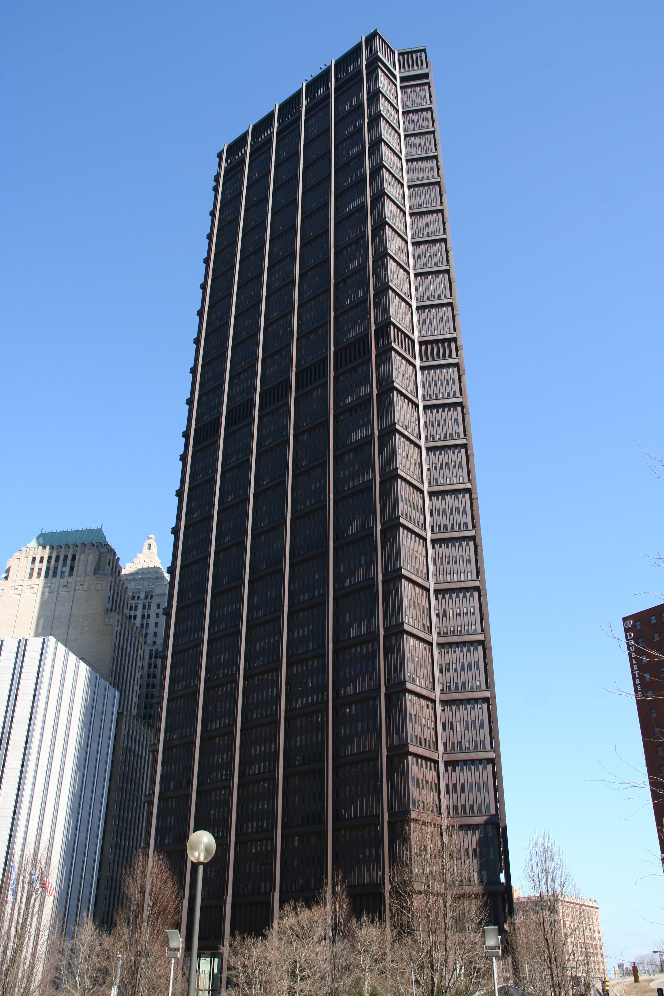 U.S. Steel Tower in downtown Pittsburgh, Pennsylvania.